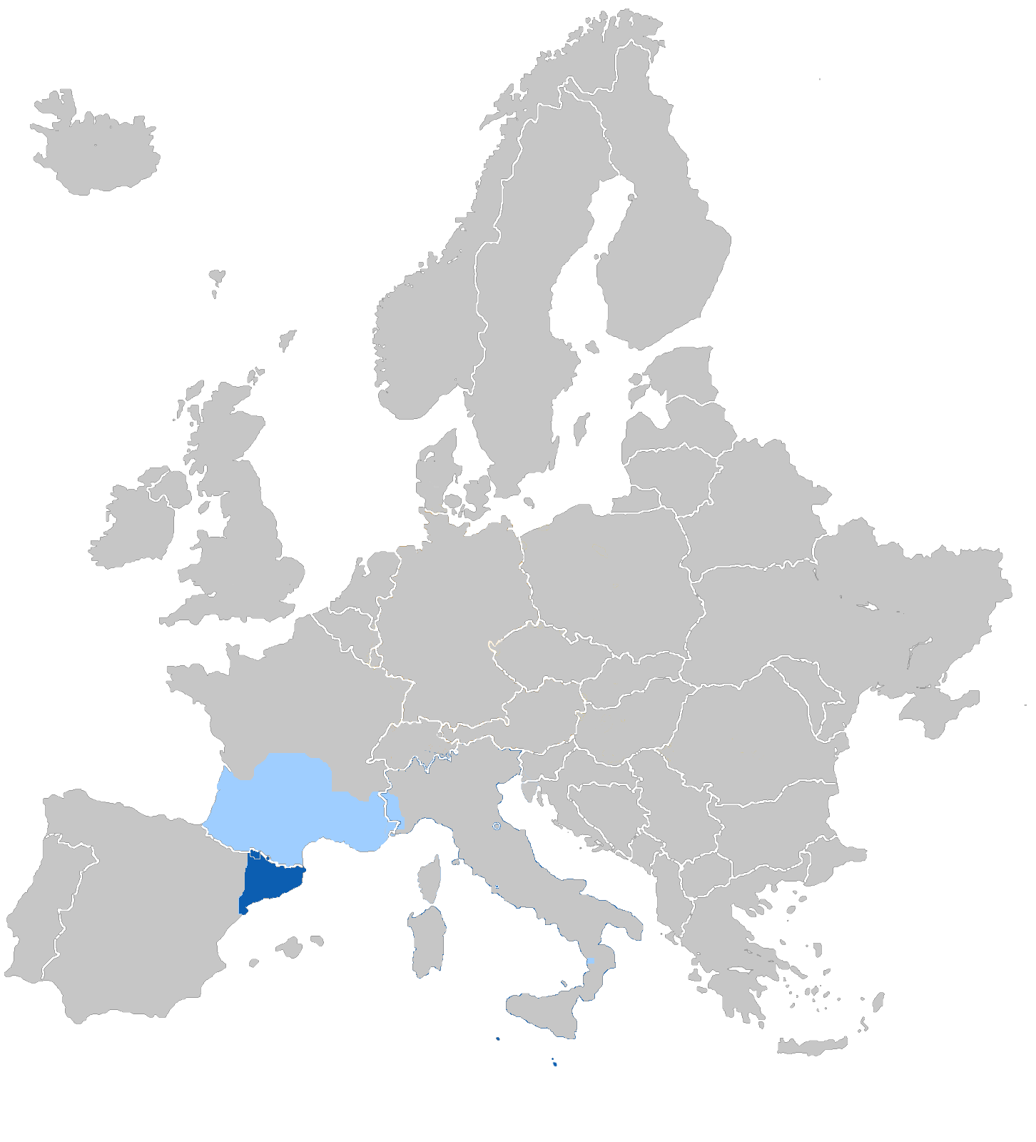 Occitan language status in Europe